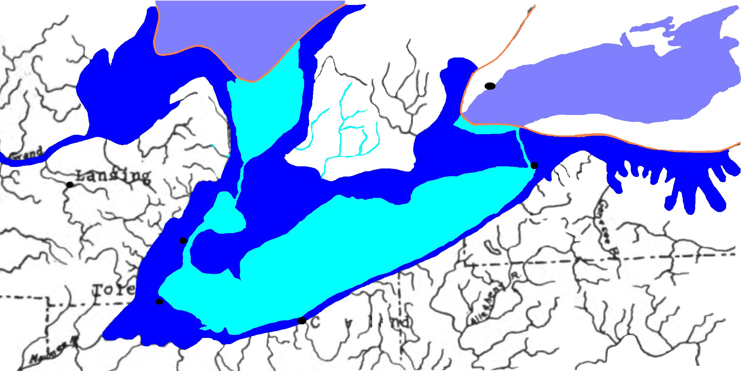 Simplified version of USGS (Leverett-Taylor) Map 1908